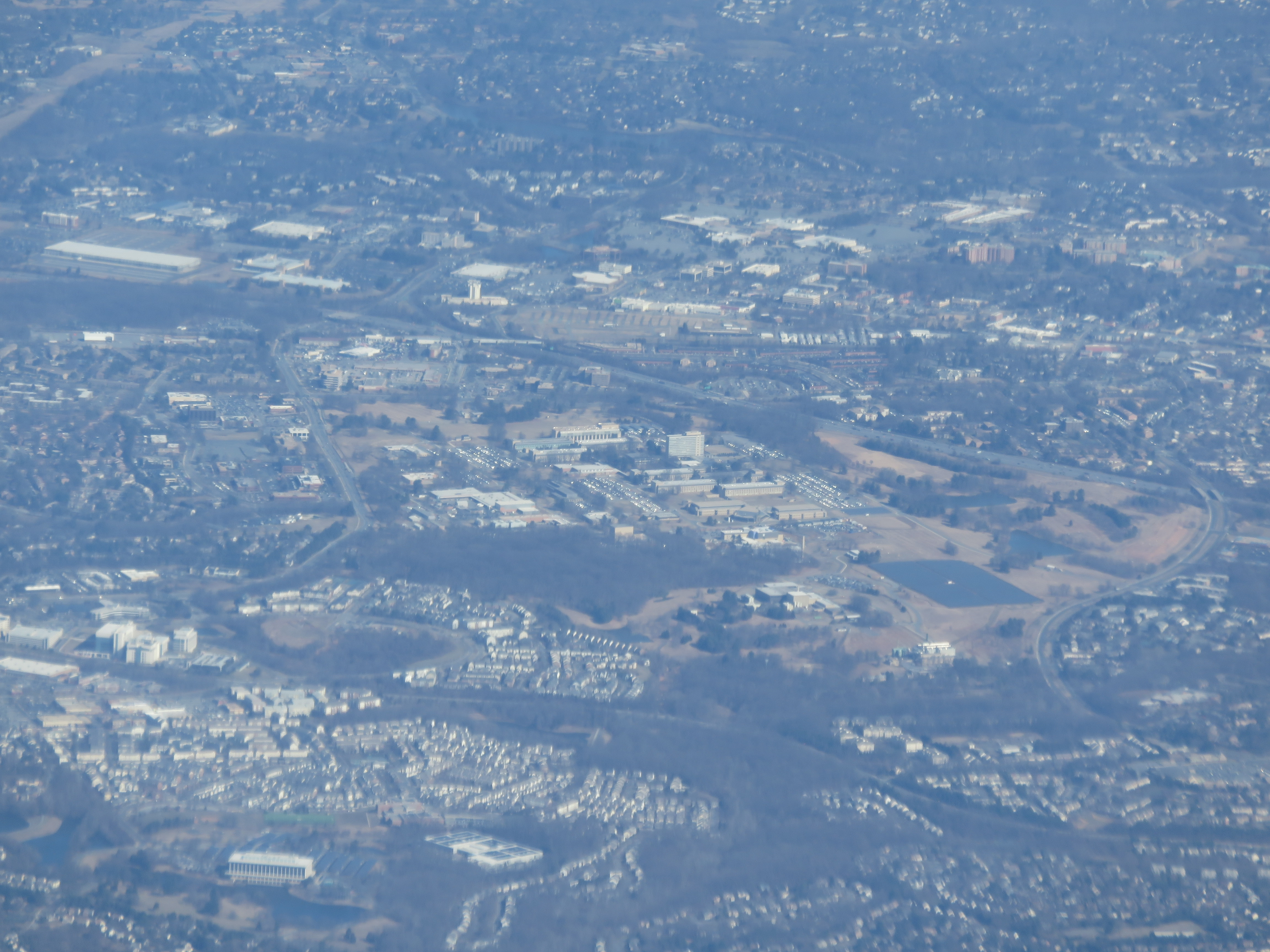 Aerial view of the U.S. National Institute of Standards and Technology campus in Gaithersburg, Maryland in 2019